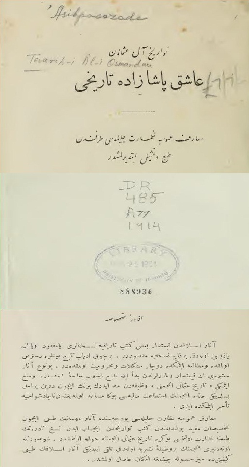 Cover page of "History of Ottoman royal family" original book copy